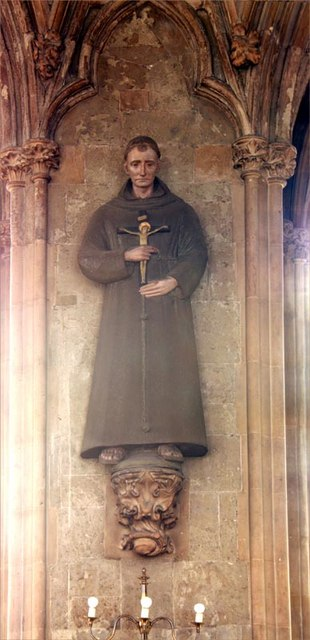 St Etheldreda, Ely Place, London EC1 - Nave statue Blessed John Forest